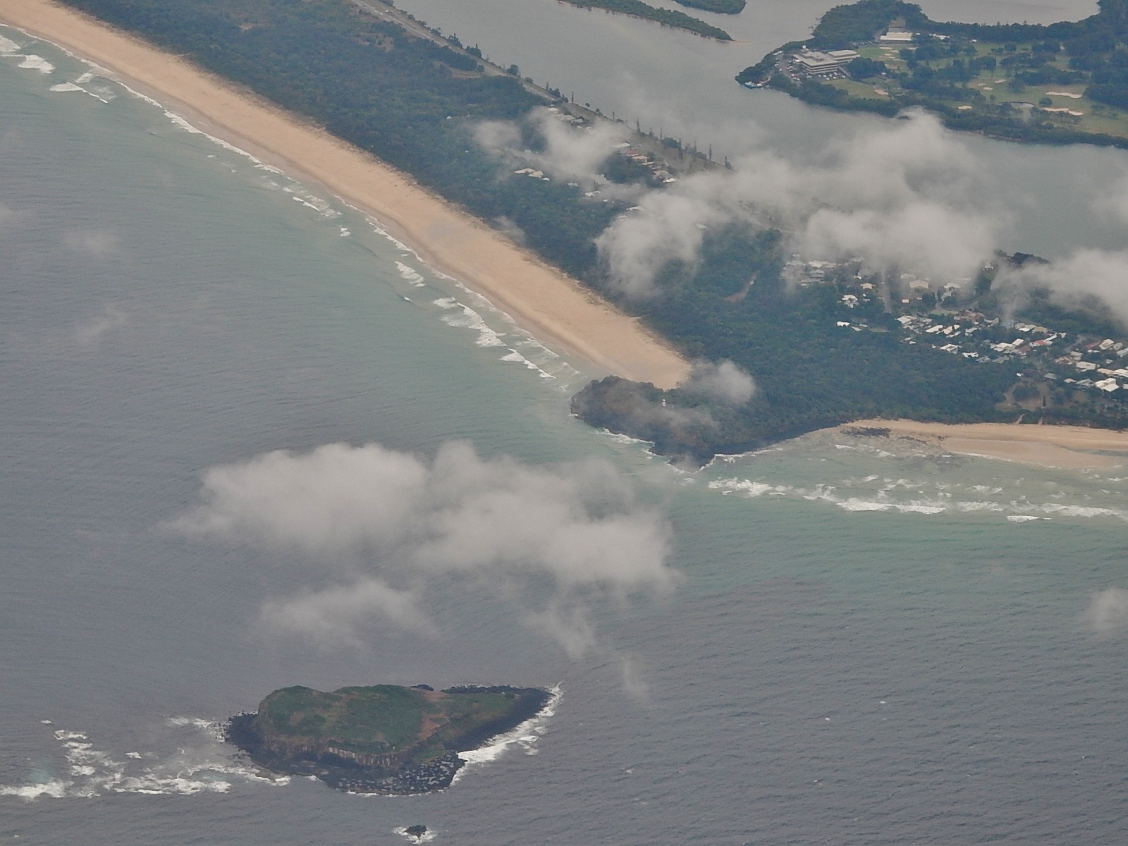 for the ground view!